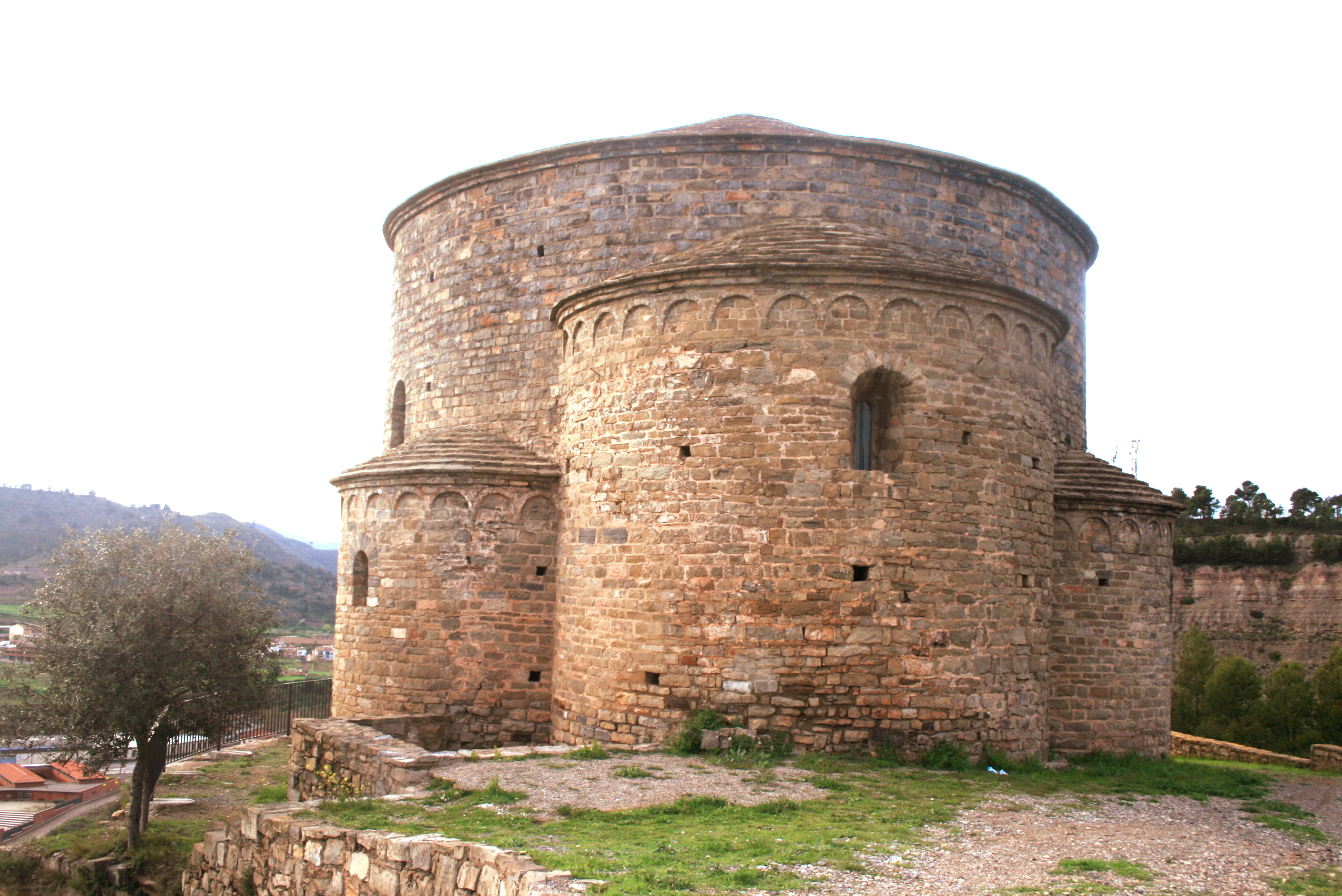 Romanesque chapel in Sallent Castle (Catalonia)